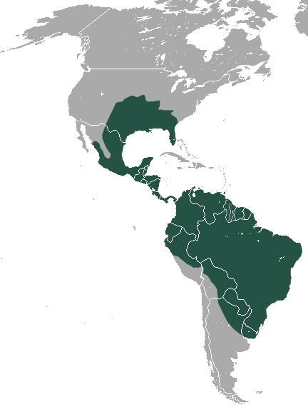 Common Long-nosed Armadillo (Dasypus novemcinctus) range